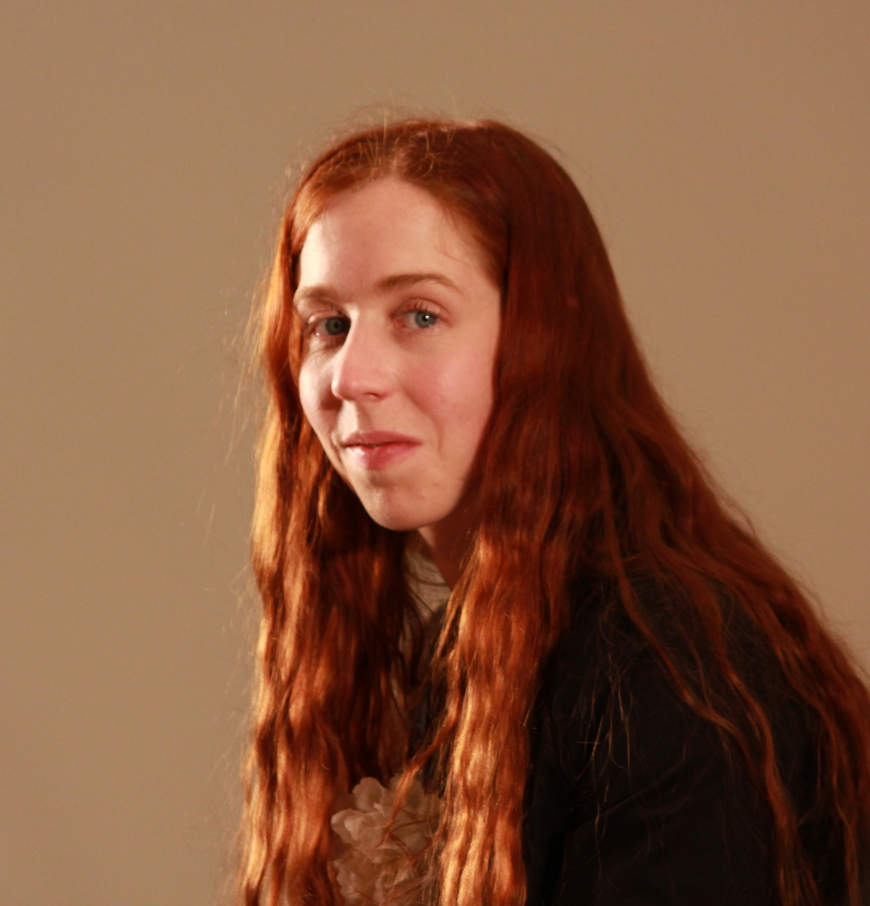 Cécile Corbel during a show held in Tôkyô for the St-Yves 2010